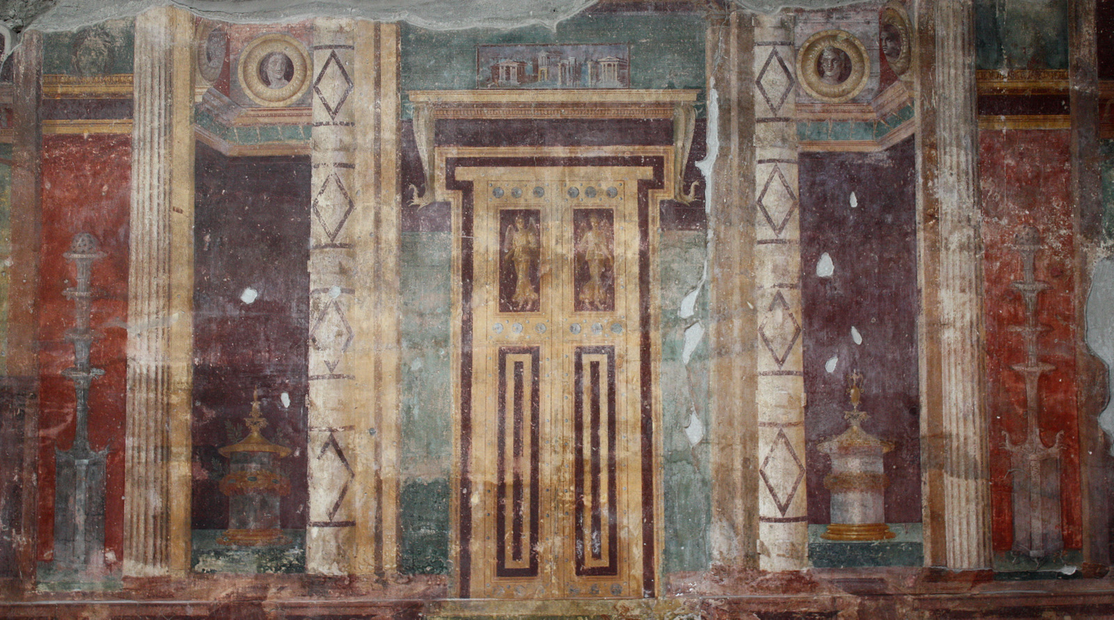 Close-up of a fresco with a false door in the atrium of the Villa Poppaea.